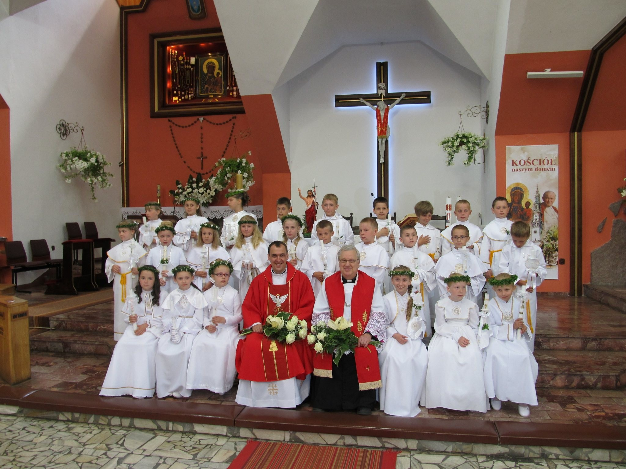 Ks. Monsignor Roman (right), pastor of the parish and Fr. Vicar Mark along with newly adopted children